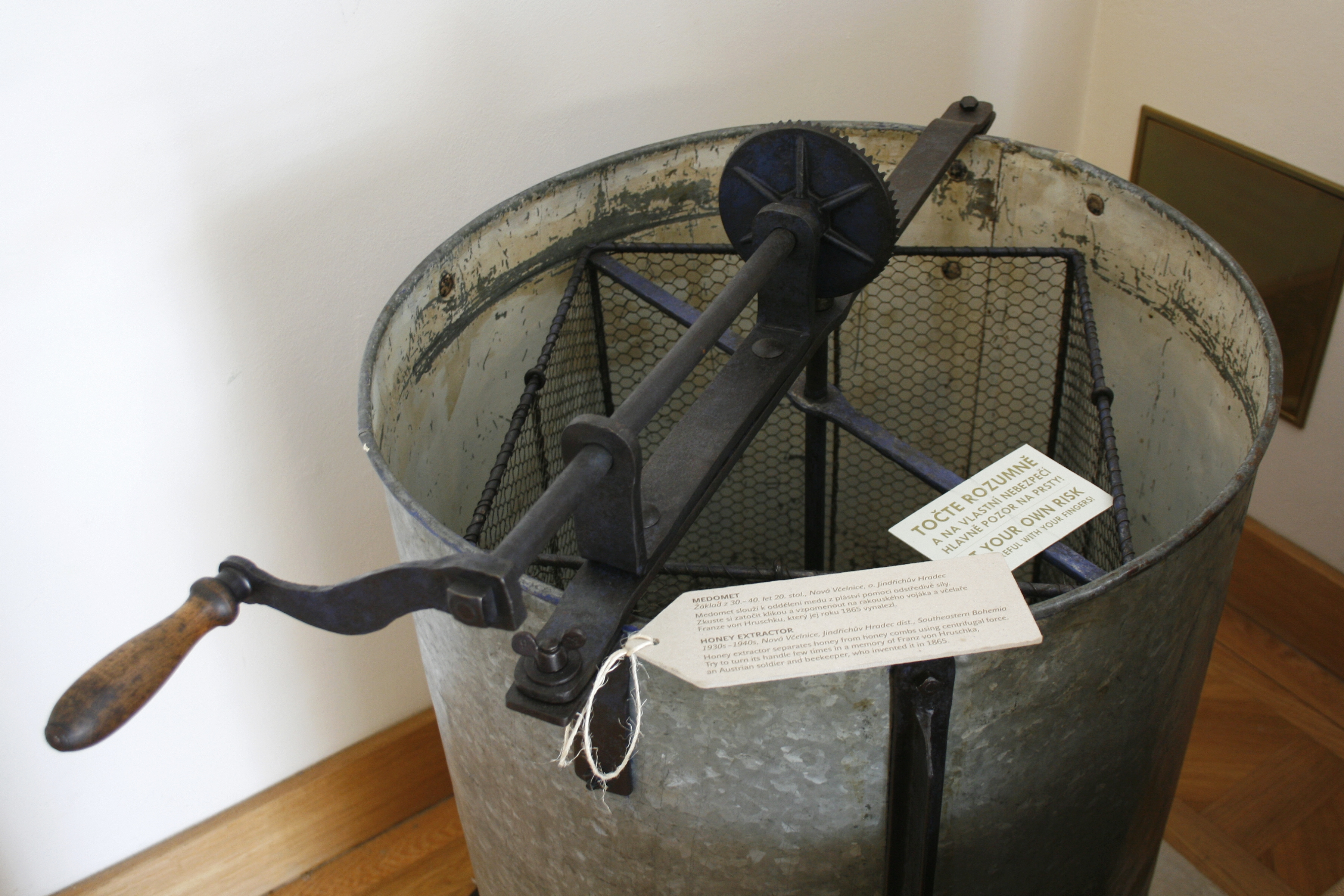 Honey extractors